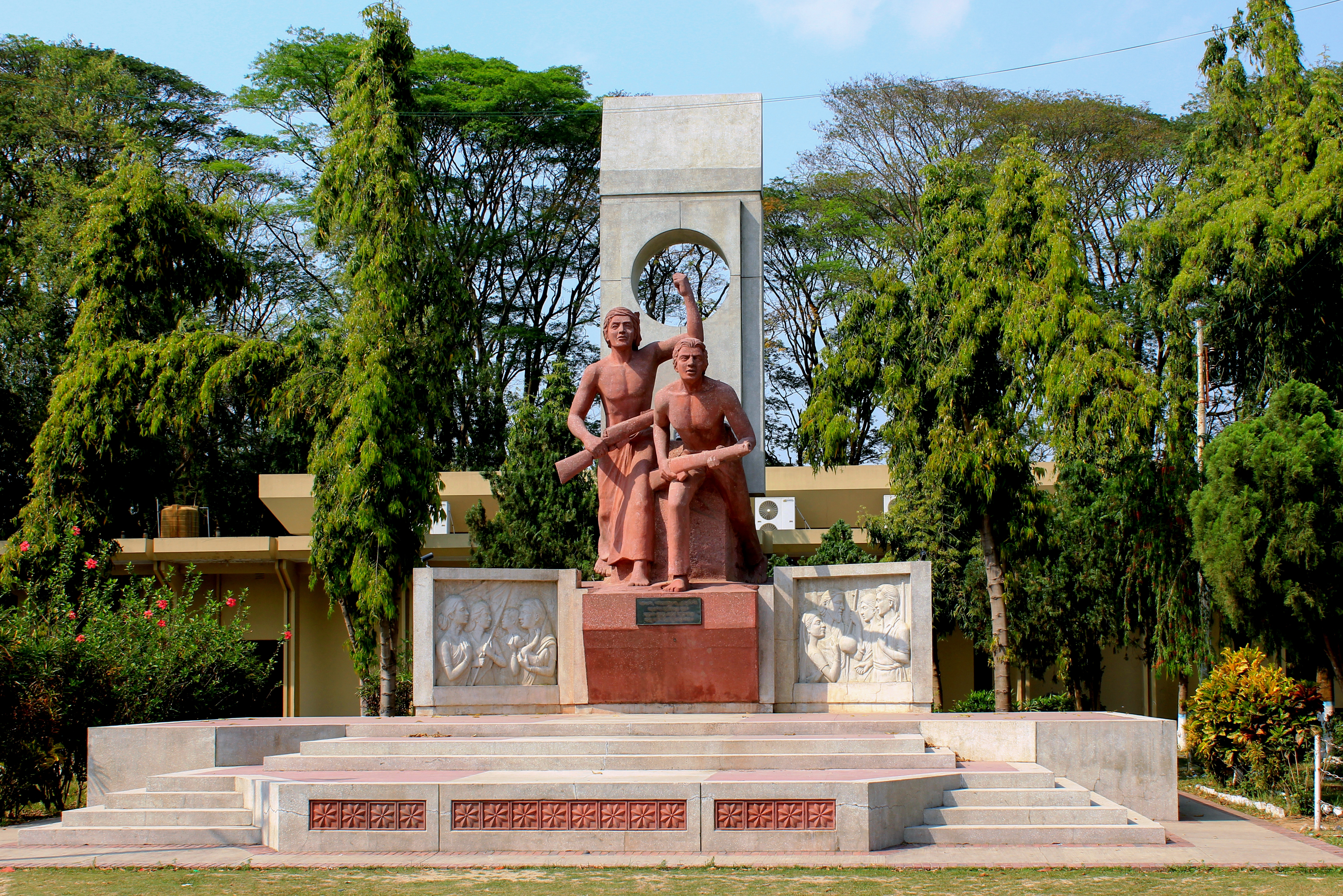 Shabash Bangladesh (Bravo Bangladesh) is a sculptures by Nitun Kundu in Bangladesh.